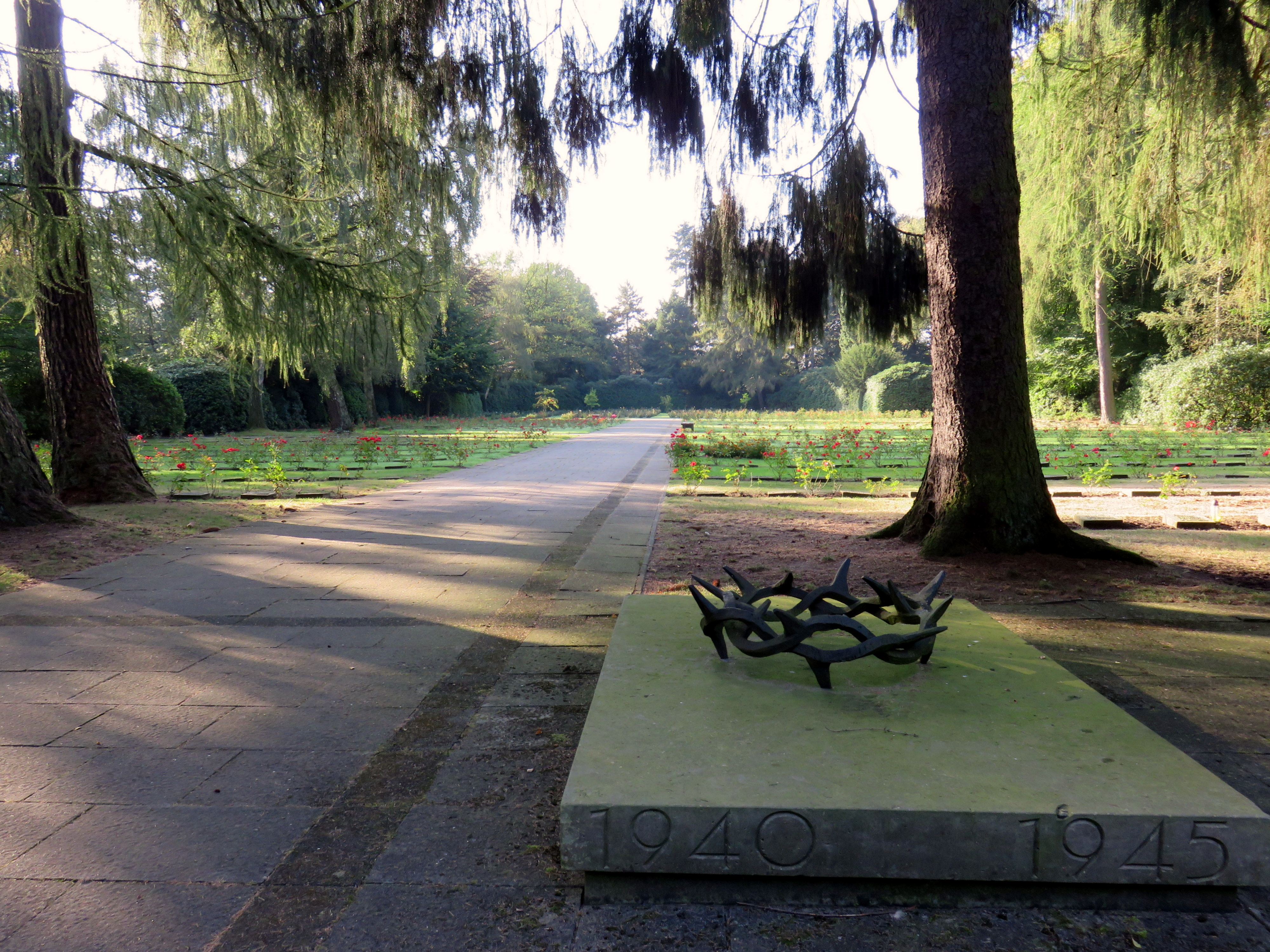 Memorial site Bombenopfer-Dornenkrone (crown of thorns) to victims of the Hamburg firestorm on Hamburg Ohlsdorf Cemetery, sculpture Iron crown of thorns by German sculptor Egon Lissow, coordinates: 53.619583°, 10.052835°.The area is part of the superordinate list numer 29622, according to column short description: „Cemetery grounds including (among others) burial sites, thombstones of cultural heritage value, monuments, museal cemetery areas“.